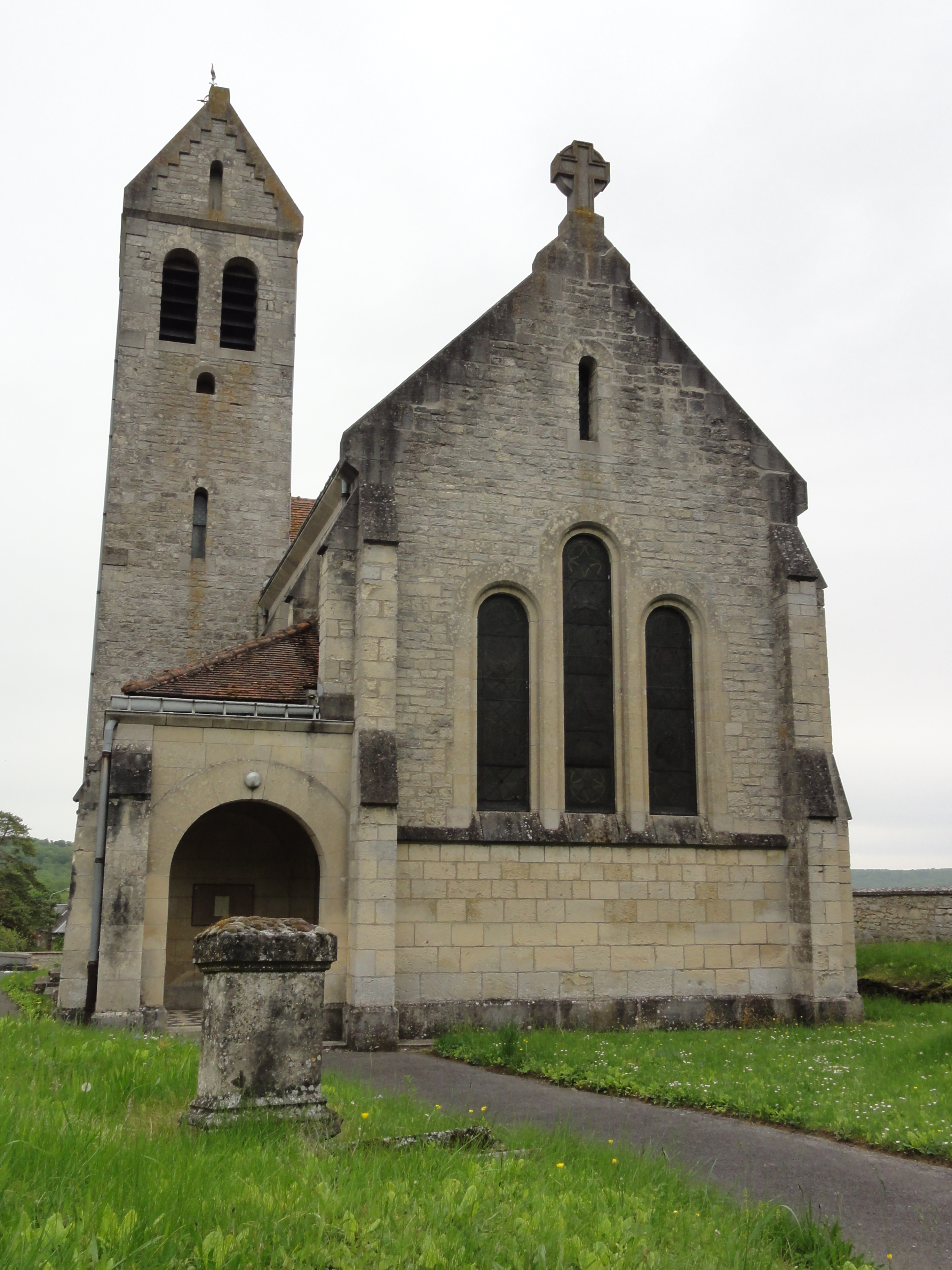 Chermizy-Ailles (Aisne) église Saint-Evence